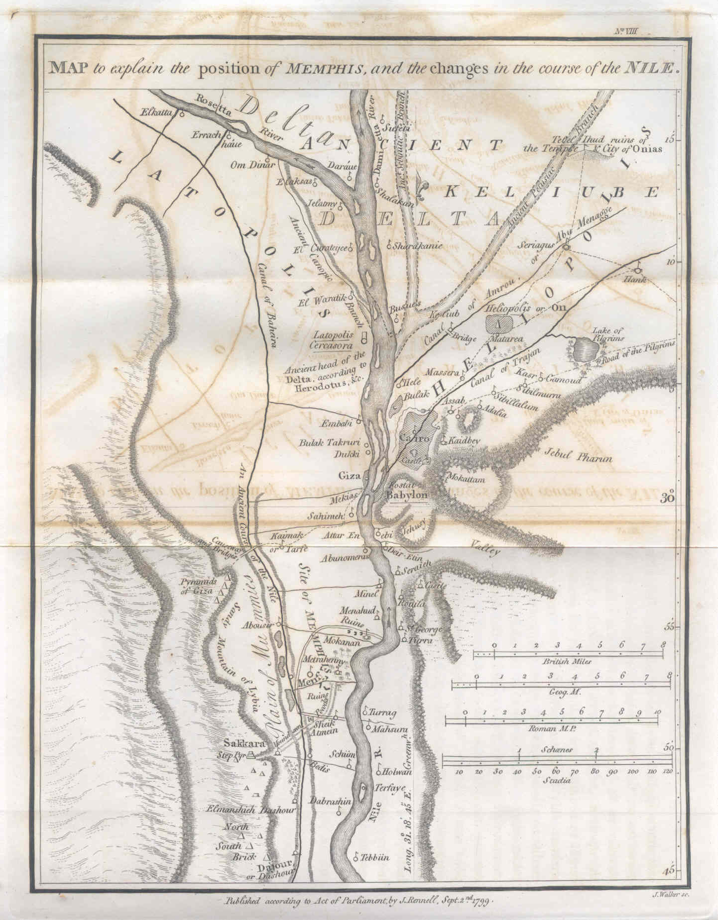 Map of Cairo and region in 1799:Explaining the (ancient siting) position of Memphis and the changes in the course, islands, and ancient branches of the Nile.Created and published by James Rennell; September 2, 1799.